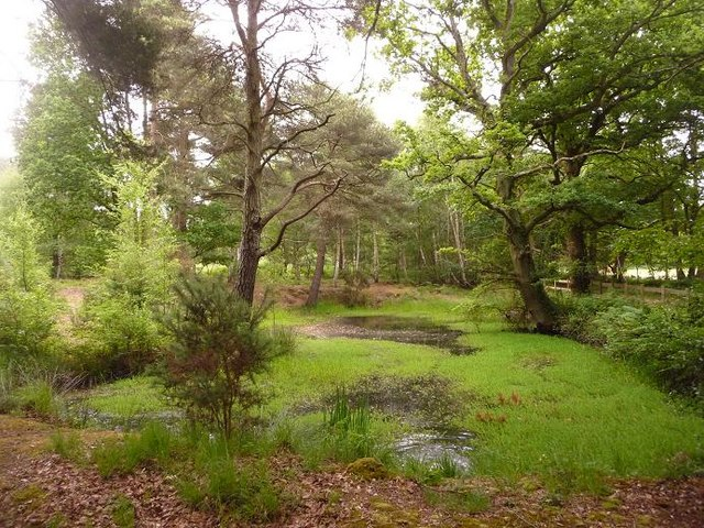 Ferndown: small pond on Ferndown Common A small pond under cover of trees at the southern edge of Ferndown Common, alongside Pompey's Lane.